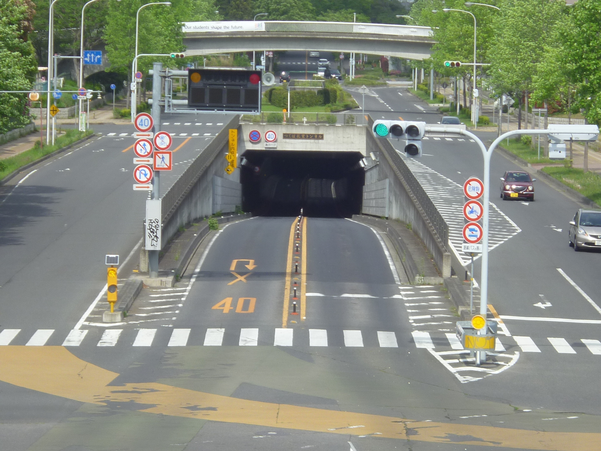 Tsukuba Hanamuro Tunnel seen from Azuma, Tsukuba City, Ibaraki Prefecture, Japan